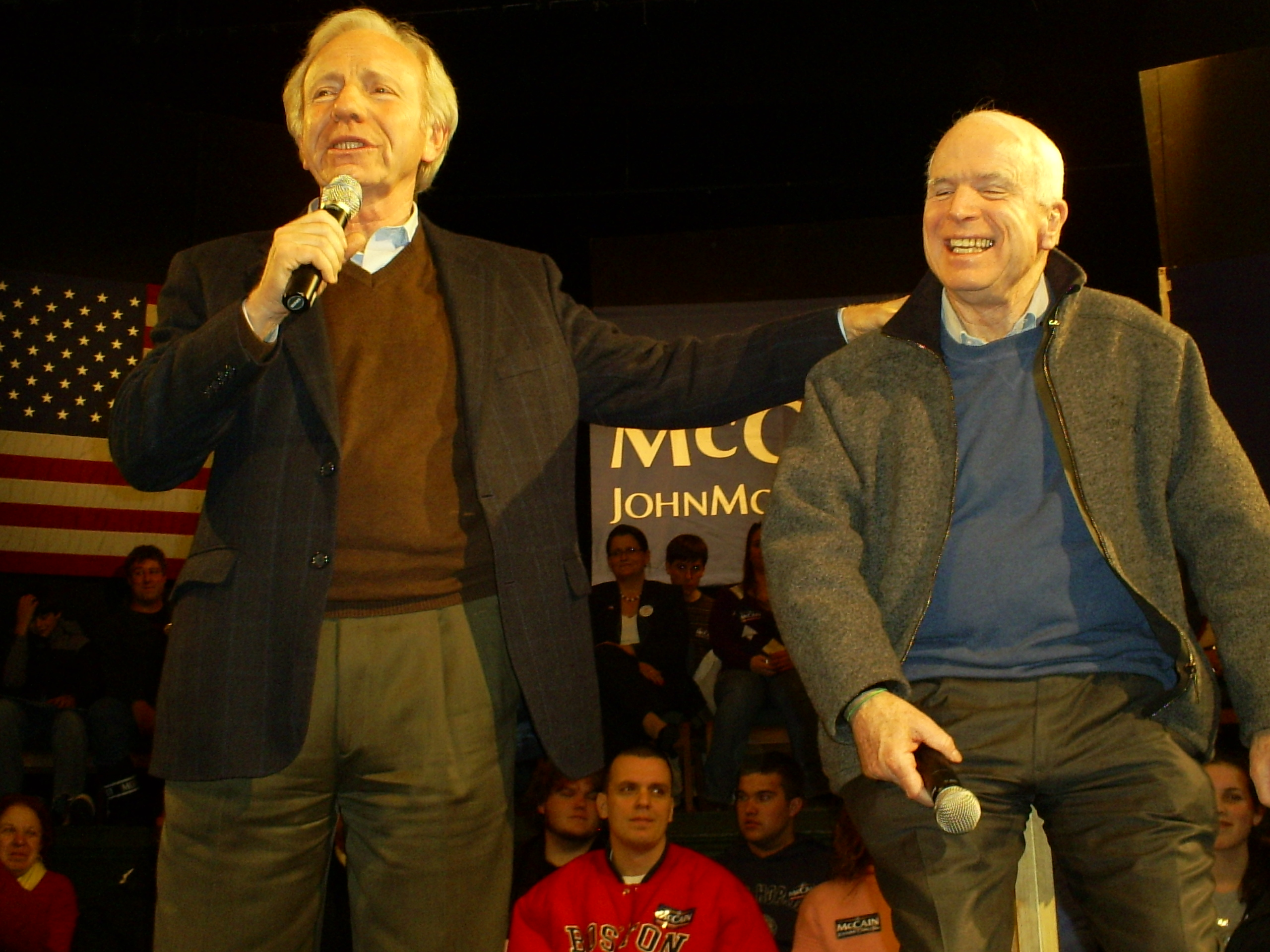 Photo by Craig Michaud. Here is Joe Lieberman and John McCain at a campaign event in Derry at the Adams Opera House.